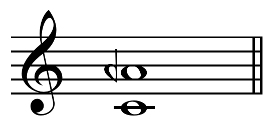 Created by Hyacinth (talk) 03:41, 8 January 2011 using Sibelius 5. Interval of a neutral sixth on C. 850 cents.